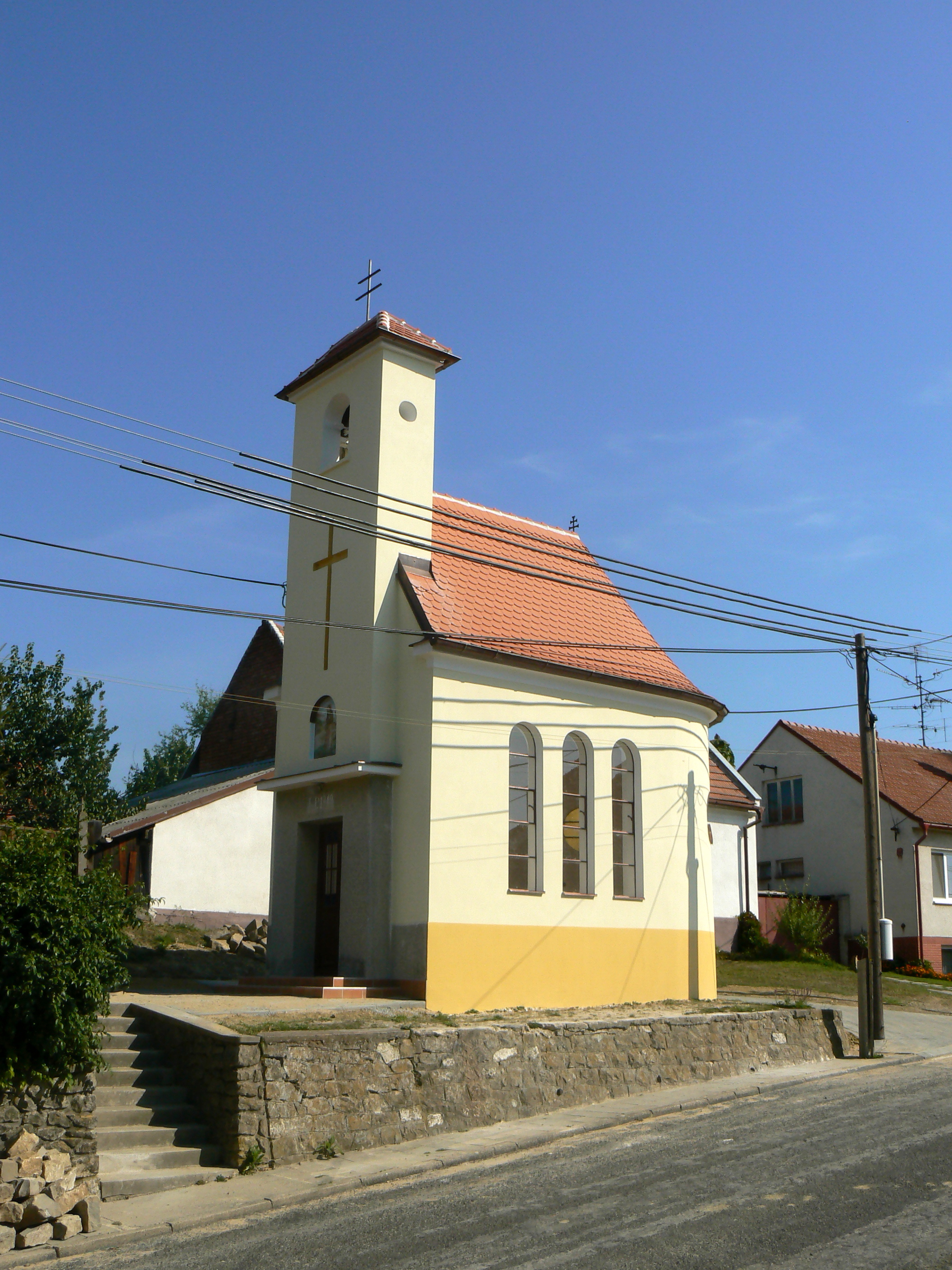 Bell tower in Labuty.